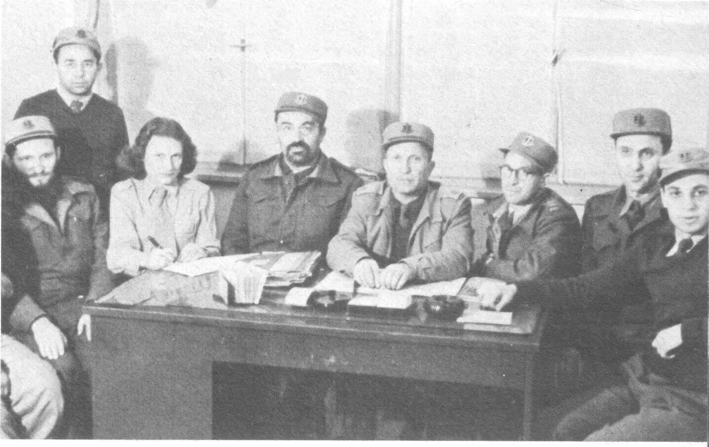 The staff of the religious service of the IDF, from right to left: Michael Lieberman (Tzur), Moshe Avital, Yechezkel Arieli, Nathan Gardi head of the service, Shimon Katz deputy, Esther Lev, Yitzchak Meir in charge of Kashrut; standing - Yechezkel Lifshitz